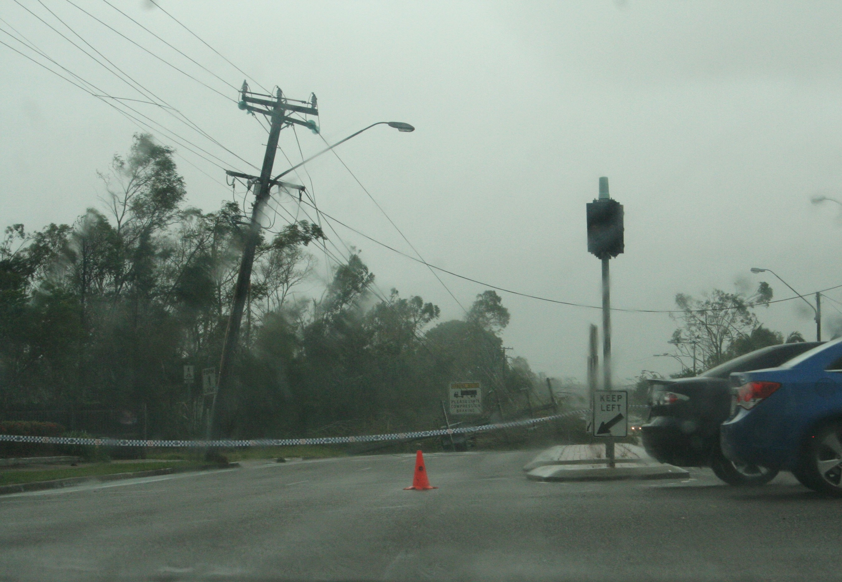 Downed power pole and lines on Hugh Street in Townsville.